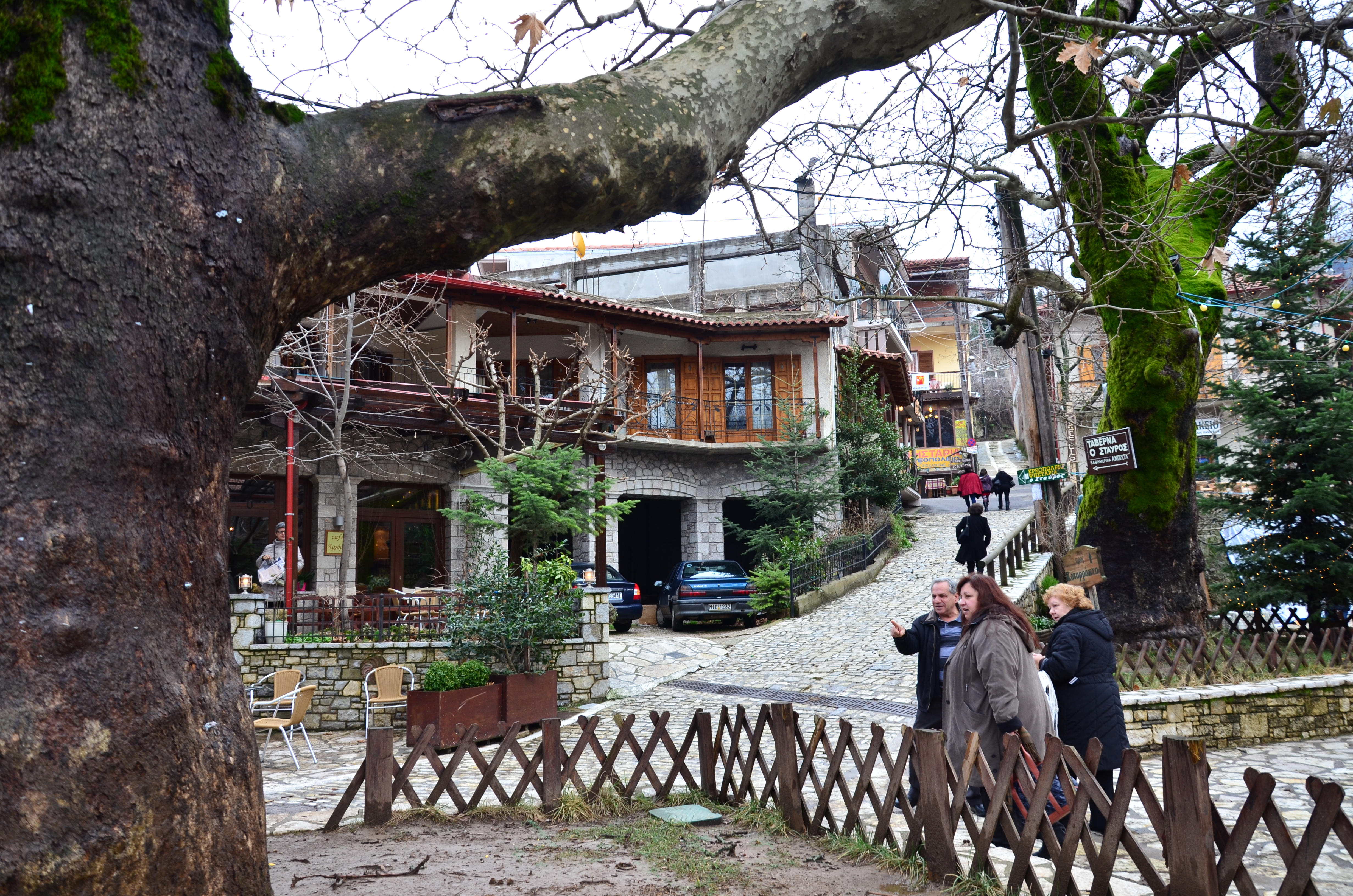 Eptalofos, Phocis